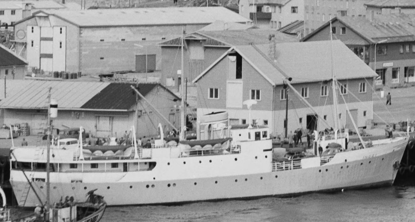 Norwegian vessel MS Ingøy in Honningsvåg, 1959. Ingøy was built in 1950.